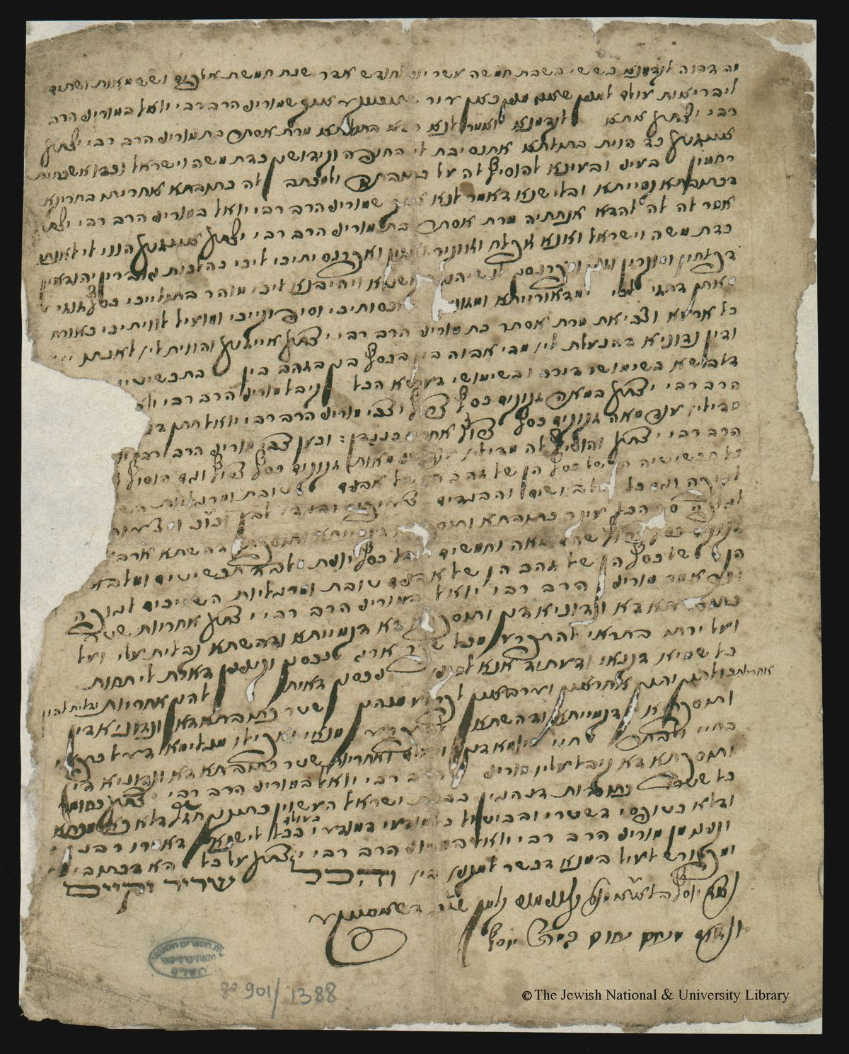 Ketubah from The Ketubbot Collection of the National Library of Israel